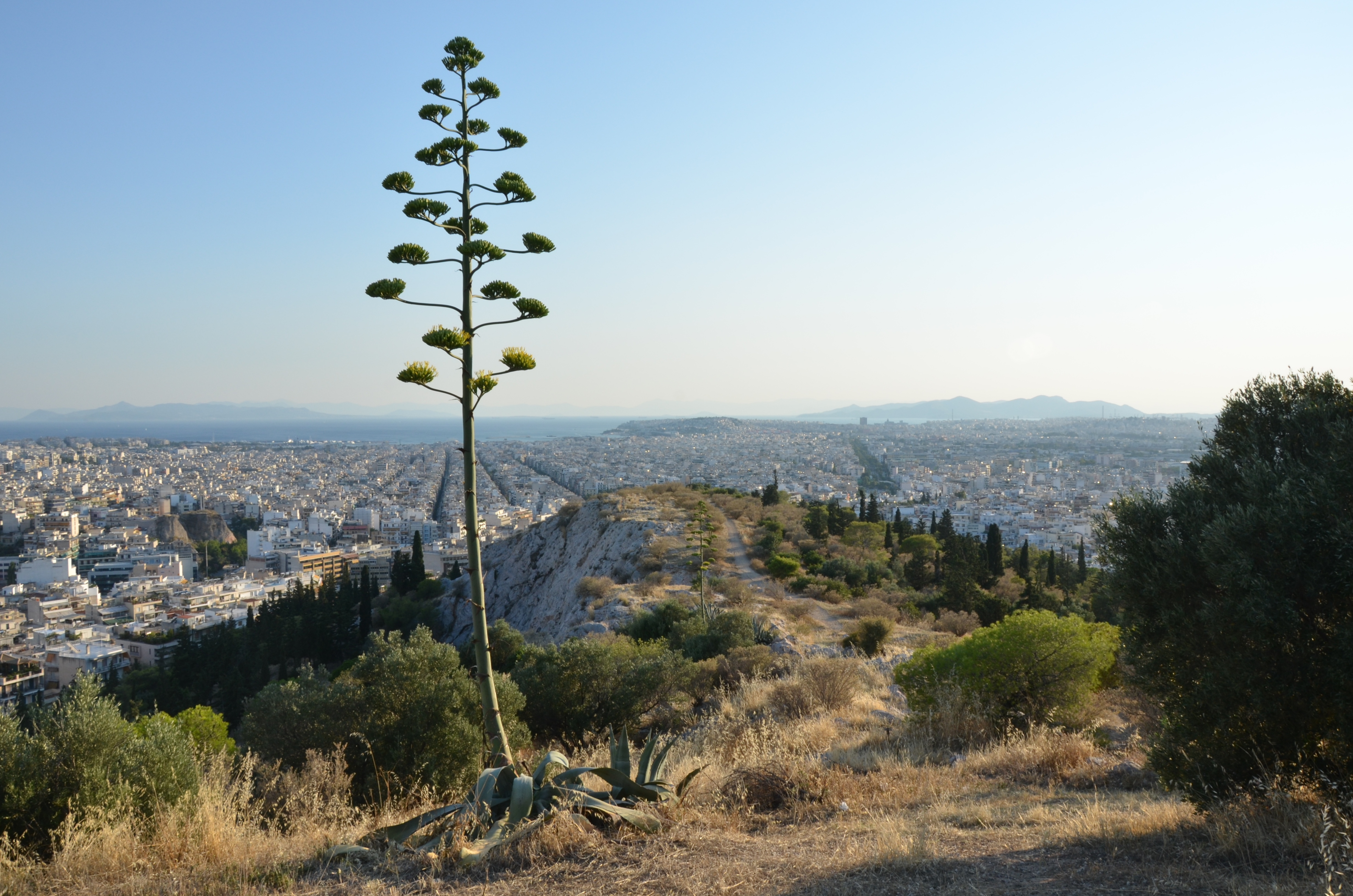 Filopappos hill - Looking south